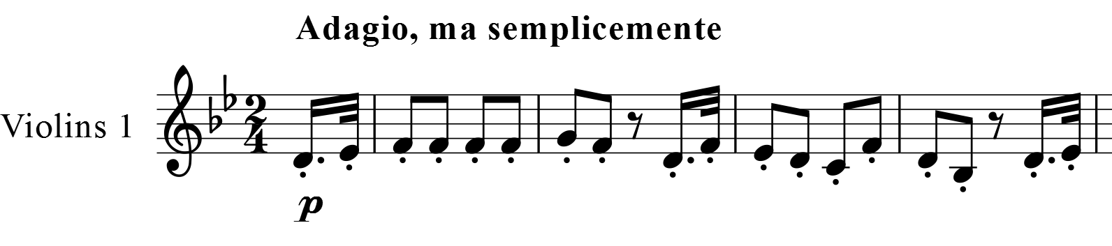 Joseph Haydn, Symphony No. 55, seconde movement, bar 1-4